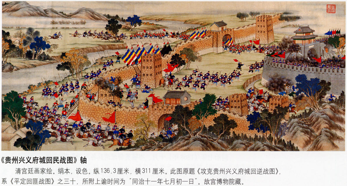 A battle of the Panthay Rebellion (1856–1873)